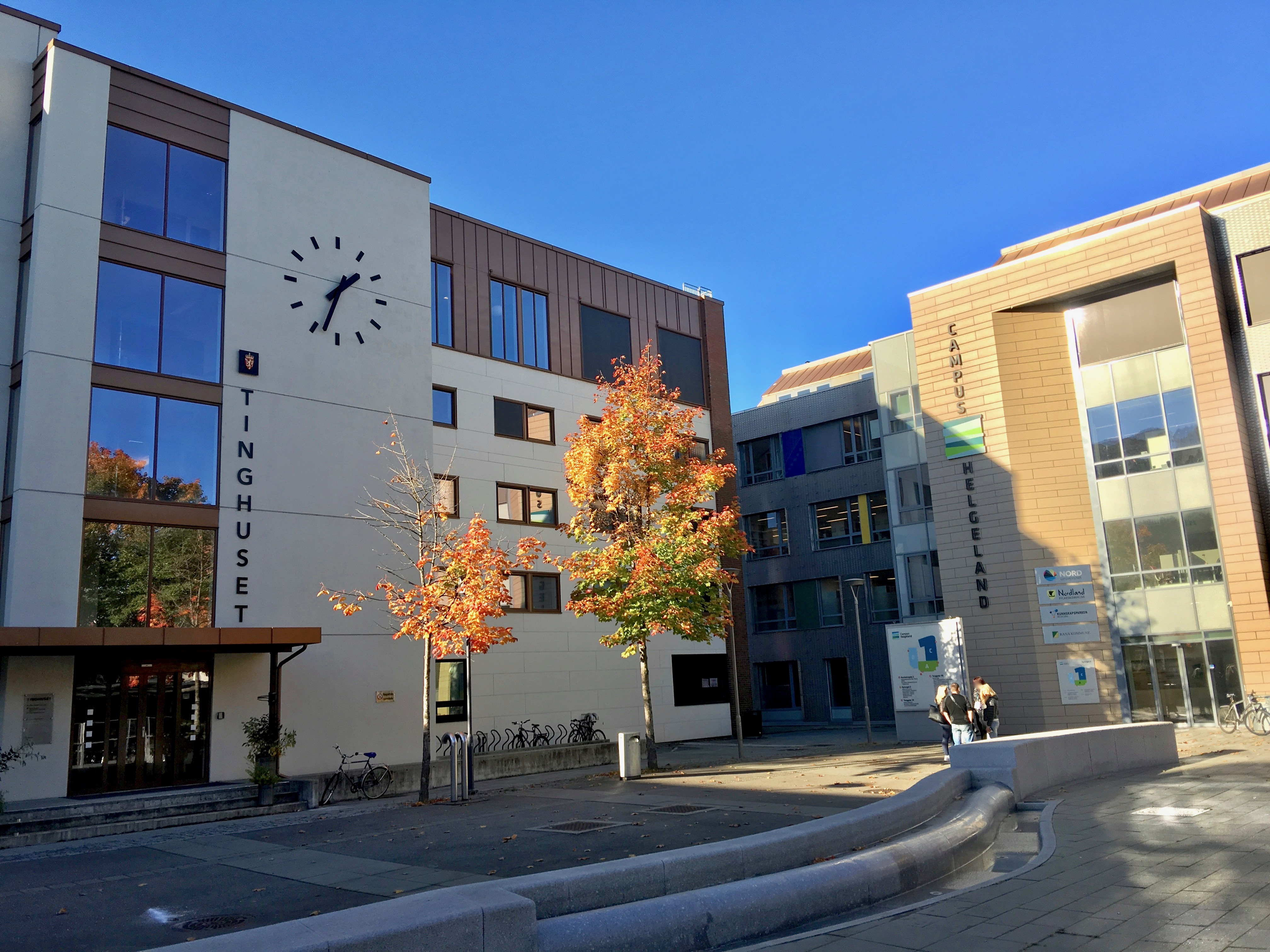 Rana tingrett ("Tinghuset") and University Nord, Campus Helgeland at Nytorget Square in Mo i Rana, Norway.